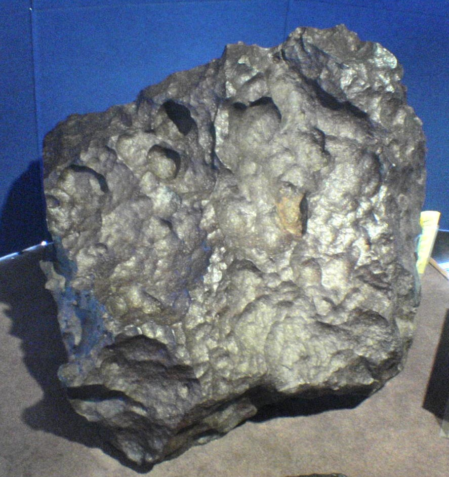 The Old Woman Meteorite. Found in the Old Woman Mountains — in the Mojave Desert, San Bernardino County, Southern California, U.S. Taken February, 2006. Photographer releases all rights worldwide.